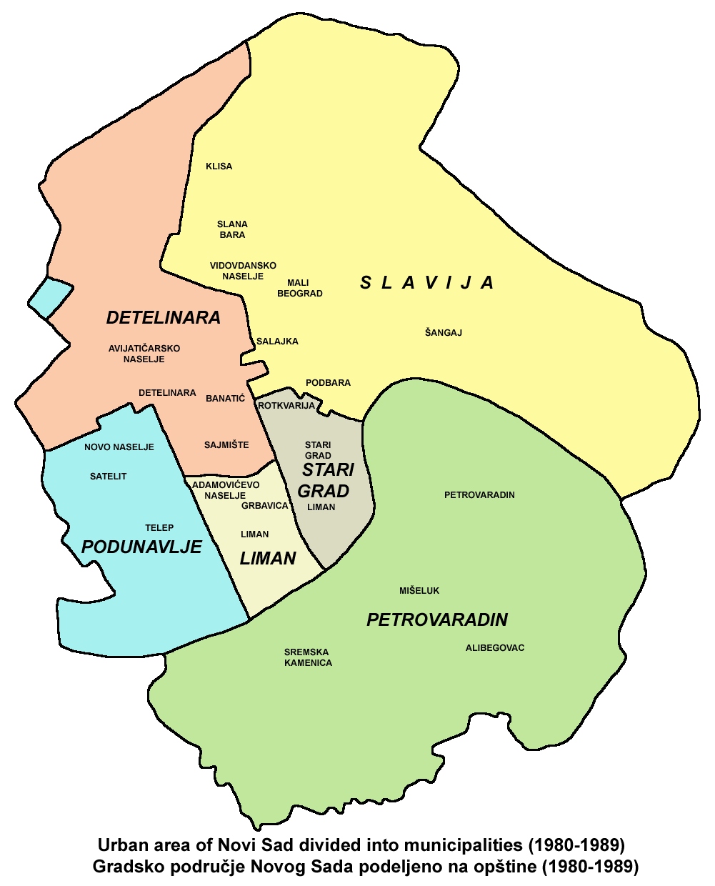 Urban area of Novi Sad divided into municipalities (1980-1989).